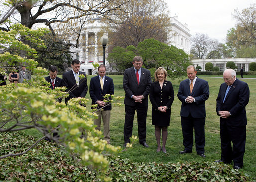 Vice President Dick Cheney stands with Oklahoma City Mayor Mick Cornett, second right, and the Oklahoma Congressional delegation Thursday, April 19, 2007, during a moment of silence on the South Lawn of the White House to commemorate the April 19, 1995 bombing of the Alfred P. Murrah Federal Building in Oklahoma City. The moment of silence was observed in front of a White Dogwood tree planted by former President Bill Clinton and Mrs. Hillary Clinton in honor of the 168 people who lost their lives in the tragedy. White House photo by Eric Draper